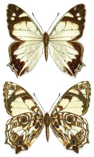 Adalbert Seitz Die Gross-Schmetterlinge der Erde 13: Die Afrikanischen Tagfalter. Plate XIII 28 Aphysoneura pigmentaria Karsch, 1894